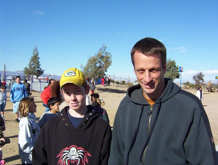 This is a photo I took of my brother and Tony Hawk at the opening of the Needles Skate Park in January of 2004. Tony donated $10,000 to the building of the park and made an appearance at the grand opening. I am uploading it for use in the Needles, California page, but if anyone has any other use for this image, feel free.